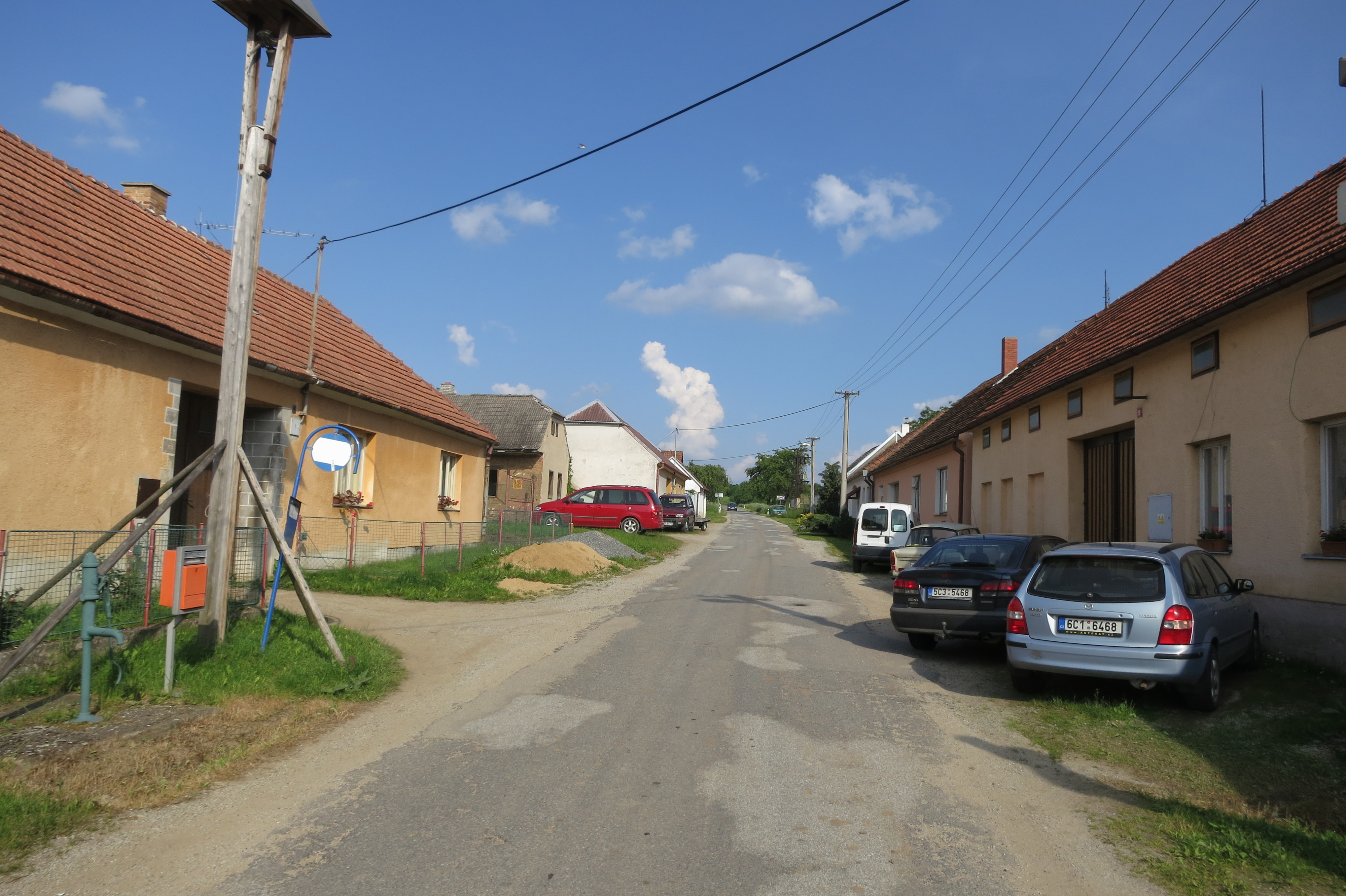 Center of Borová, Budeč, Jindřichův Hradec District.